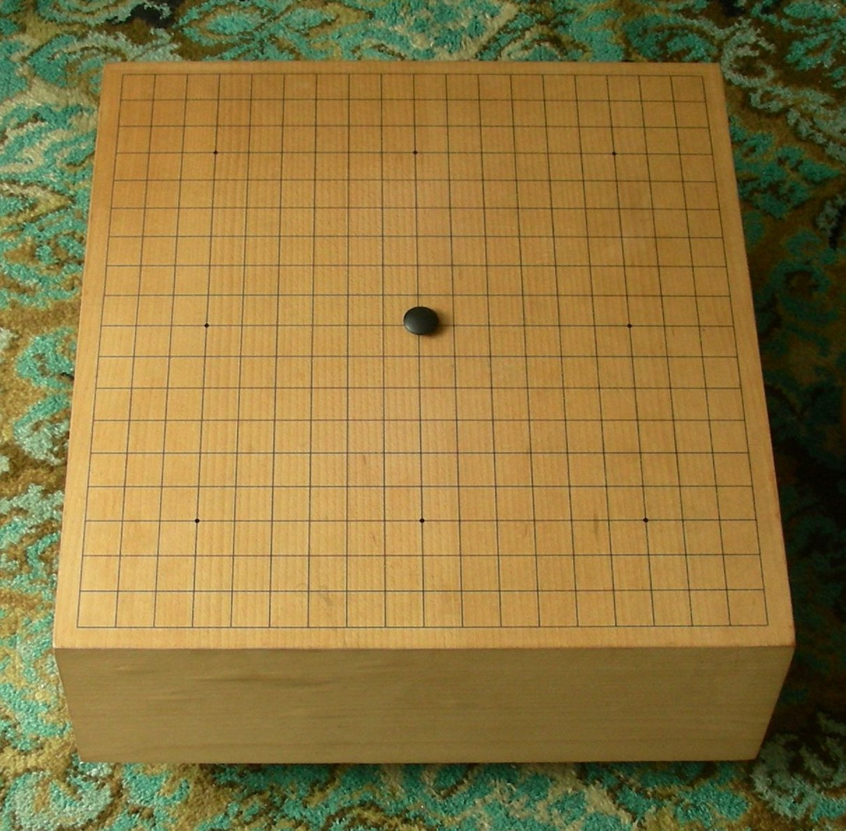 goban with black stone in tengen